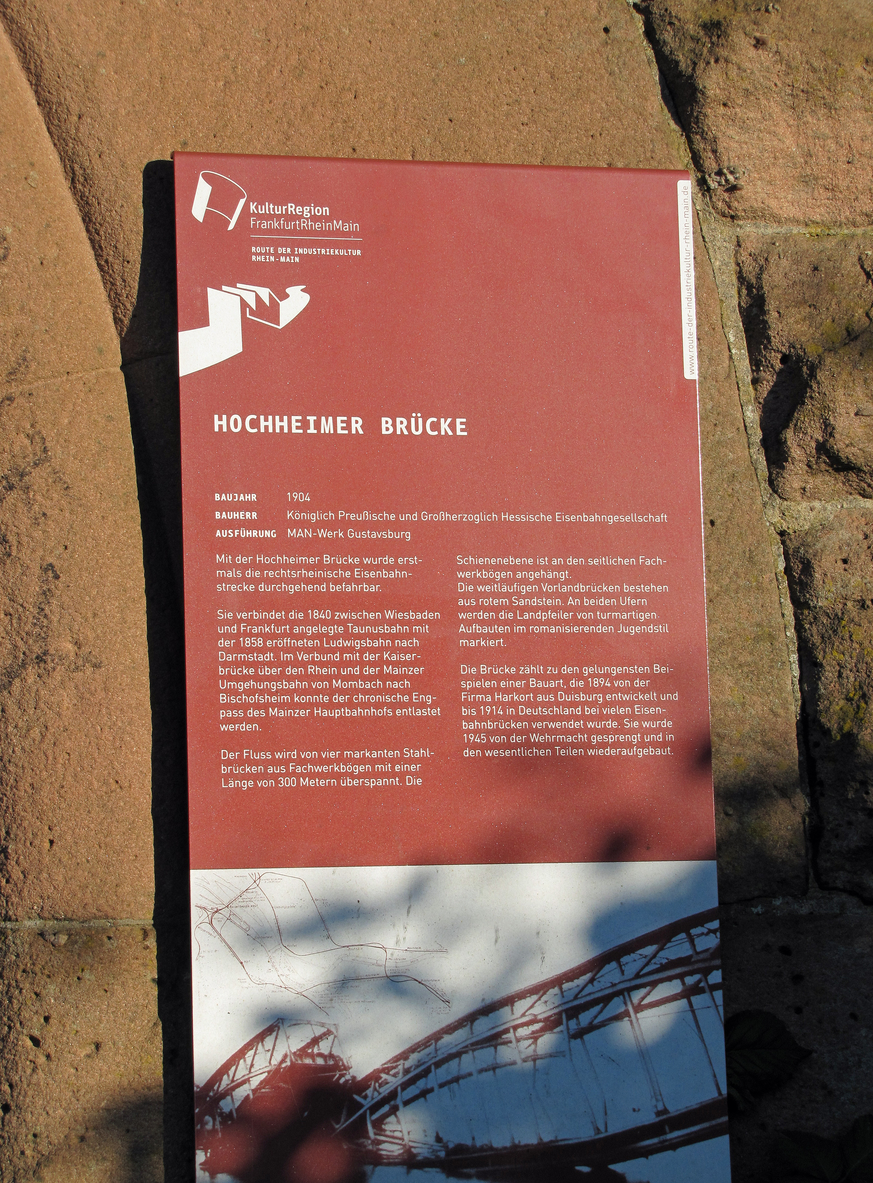 "Hochheimer Bruecke", information sign, Gustavsburg, Hesse, Germany.